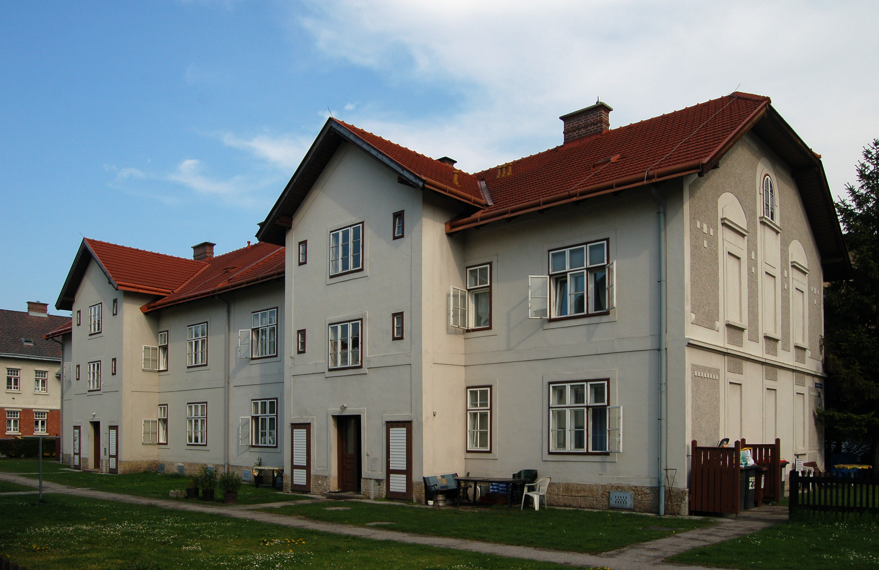 The building is part of the ensemble Wiedenbrunn, which for the major parts is a cultural heritage monument now.